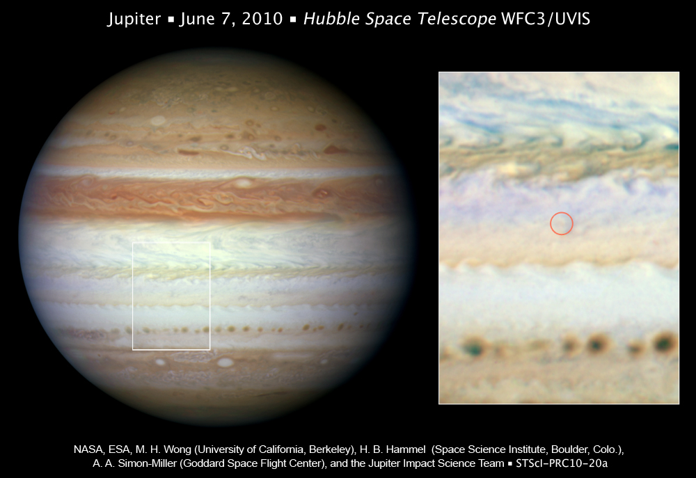 Mysterious Flash on Jupiter Left No Debris Cloud